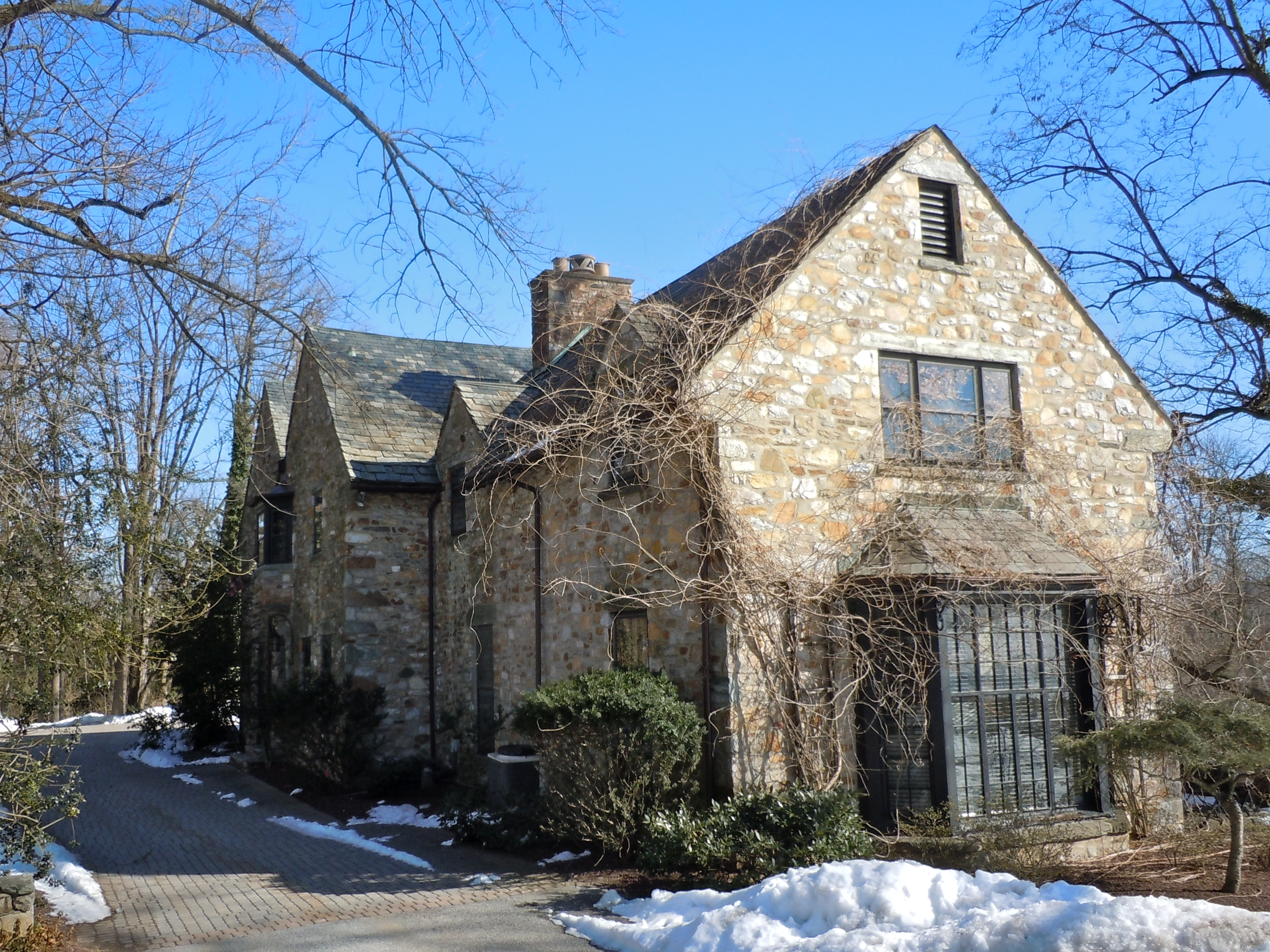 Martha and Maurice Ostheimer Estate on the NRHP since February 16, 1996. At 620 West Lincoln Highway (US 30) near Exton, in West Whiteland Township, Chester County, Pennsylvania. Another NRHP site "Wee Grimmet is about 30 yards away.